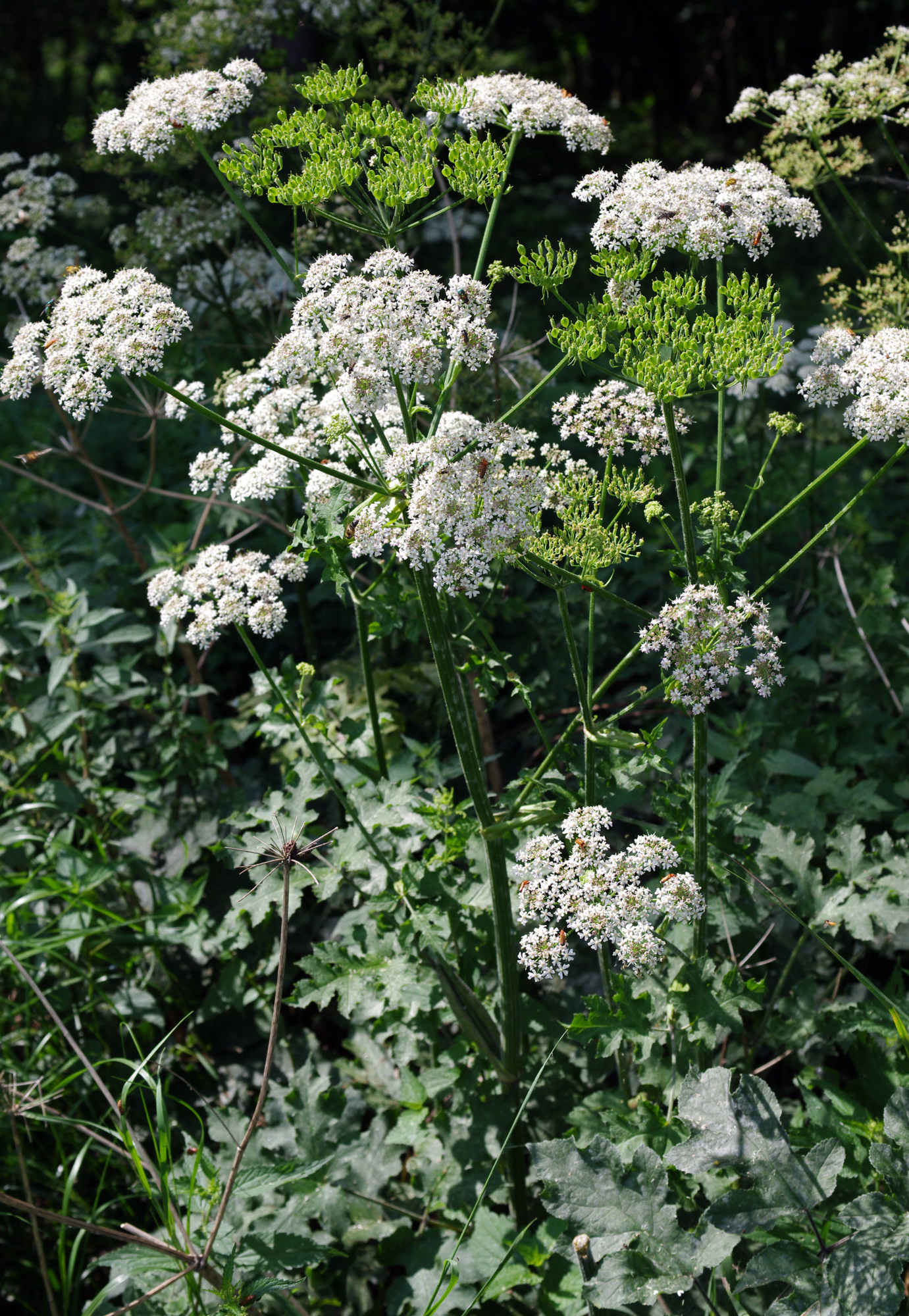 Habitus of flowering Common Hogweed, Heracleum sphondylium (Apiaceae).